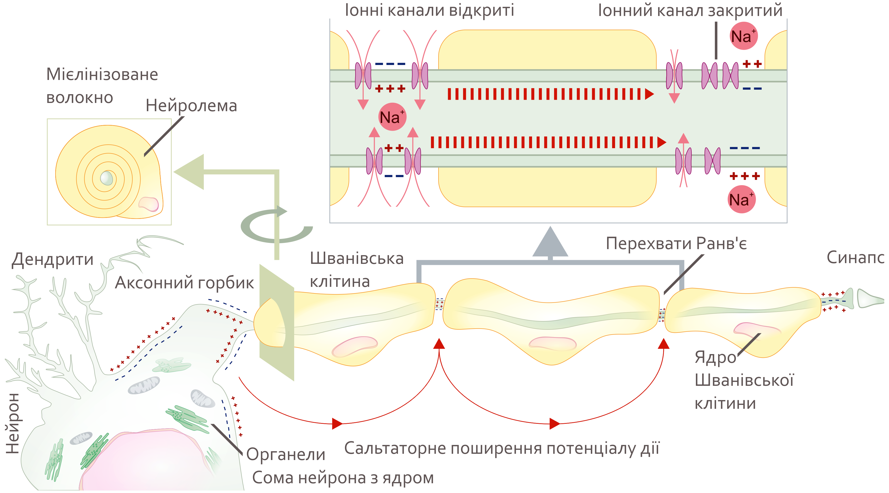 This image is made by one of the local juries of the contest. The image is not part of the contest, and will not participate in the competition and will not be rated. But it was helluva fun to make =) and some articles really need illustrations. Image description: Schematic representation of the action potential propagation through myelinated nerve fiber of peripheral nervous system. From axon hillock of neuron body (soma) action potential propagates from one unmyelinated fiber part to next one. The unmyelinated parts of the nerve fiber are nodes of Ranvier. This way of action potential propagation is called saltatory conduction (red arrows in the diagram) Ion channels open, allow potassium ions to enter the cell leading to membrane depolarization and generation of action potential. Myelination of nerve fibers in the peripheral nervous system is achieved by Schwann cells wrapping around an axon part (cross section). The nucleus and most of the Schwan cell cytoplasm are contained in the outer most layer called neurilemma. Own work loosely based on Raphael Alya R., Talbot William S. (2011). "New Insights into Signaling During Myelination in Zebrafish". Current topics in developmental biology 97: 1–19. ISSN 00702153.Min Y., Kristiansen K., Boggs J. M. at al (2009). "Interaction forces and adhesion of supported myelin lipid bilayers modulated by myelin basic protein". Proceedings of the National Academy of Sciences 106 (9): 3154–3159. ISSN 0027-8424.